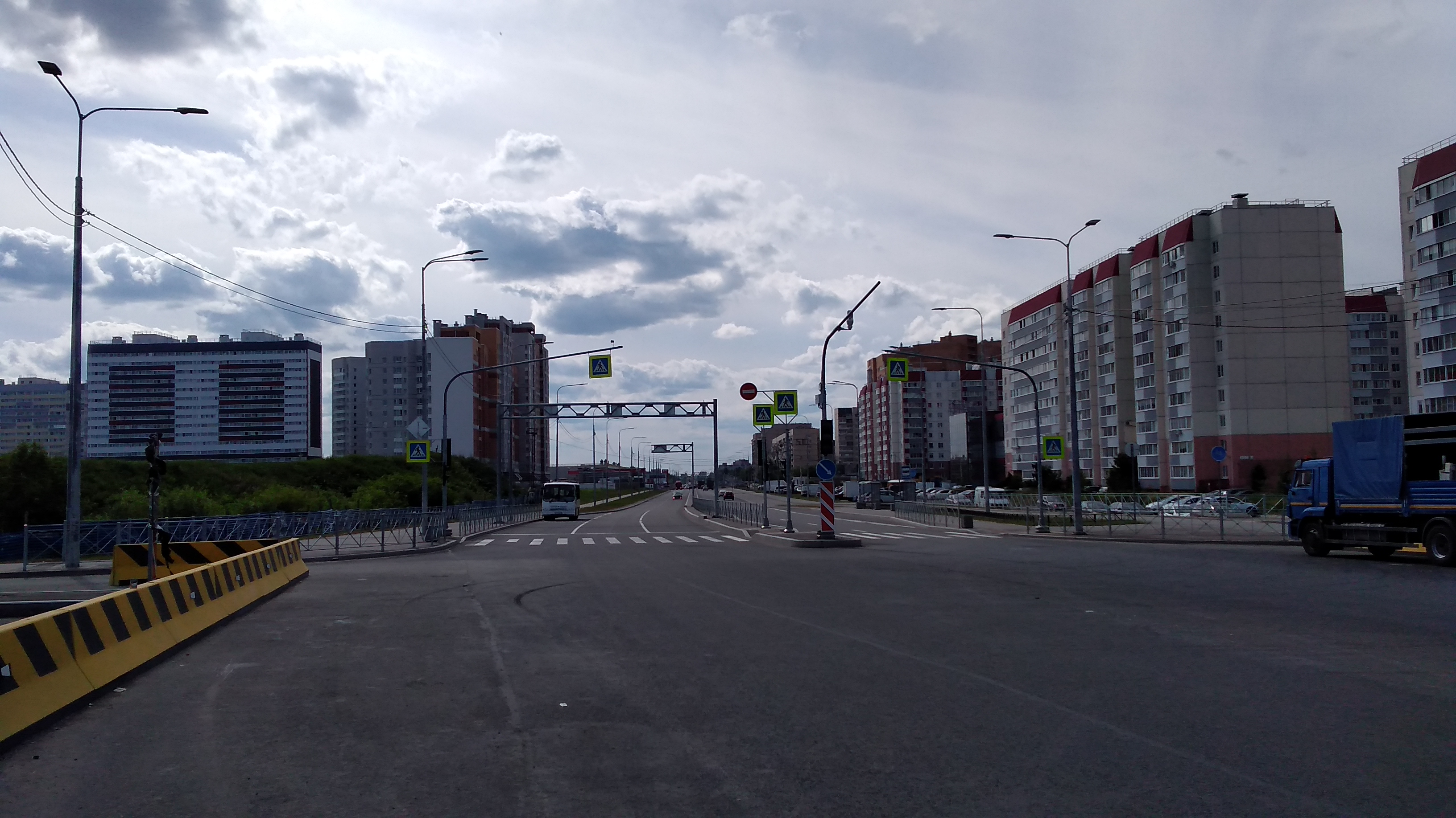 Oboronnaya Kolpino